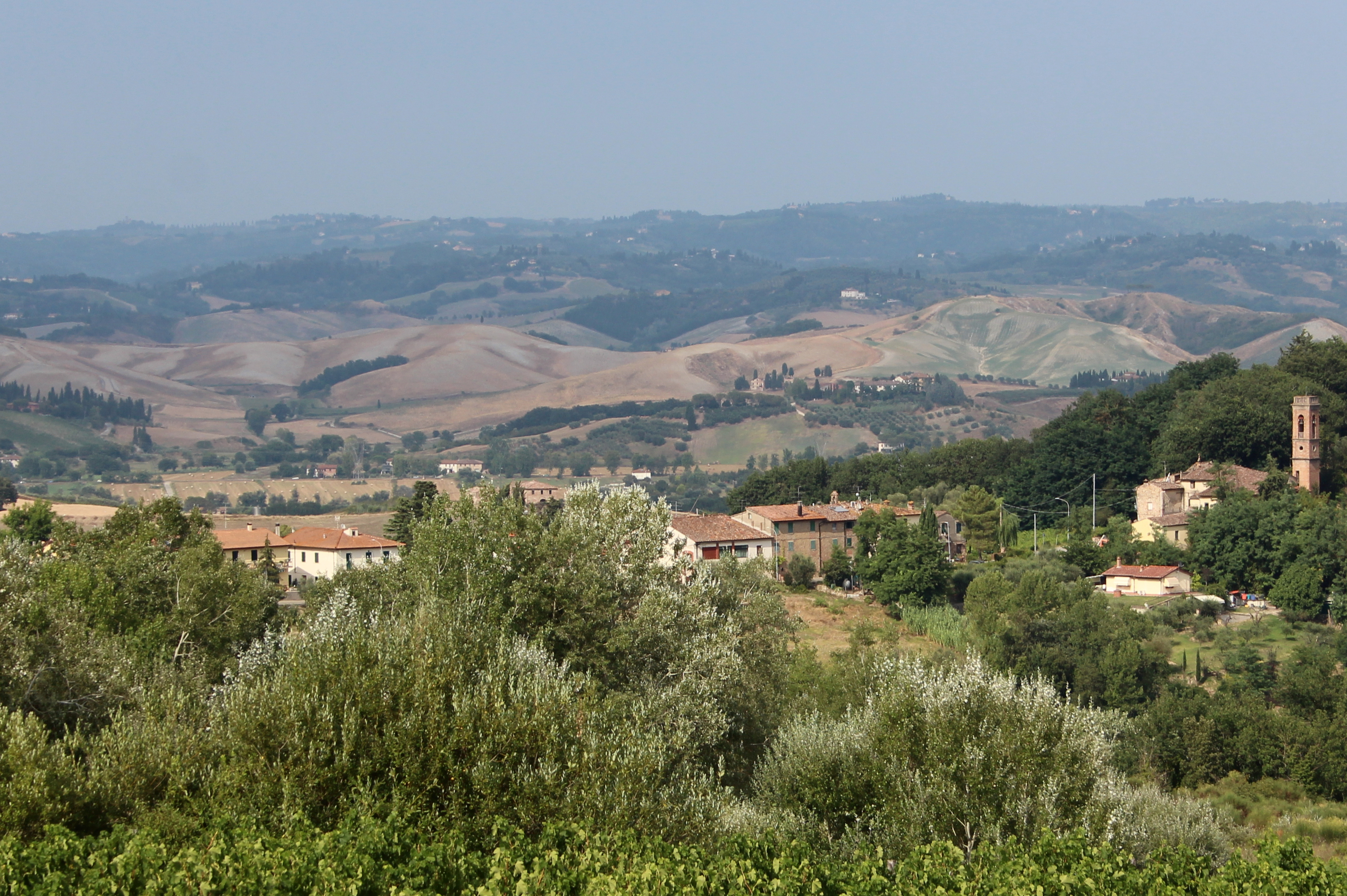 Catignano, hamlet of Gambassi Terme, Metropolitan City of Florence, Tuscany, Italy